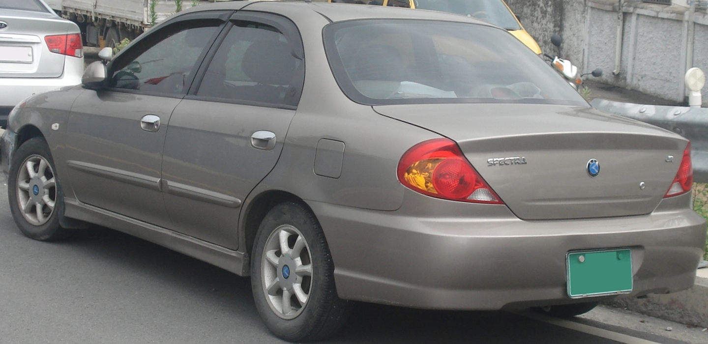 Kia Spectra